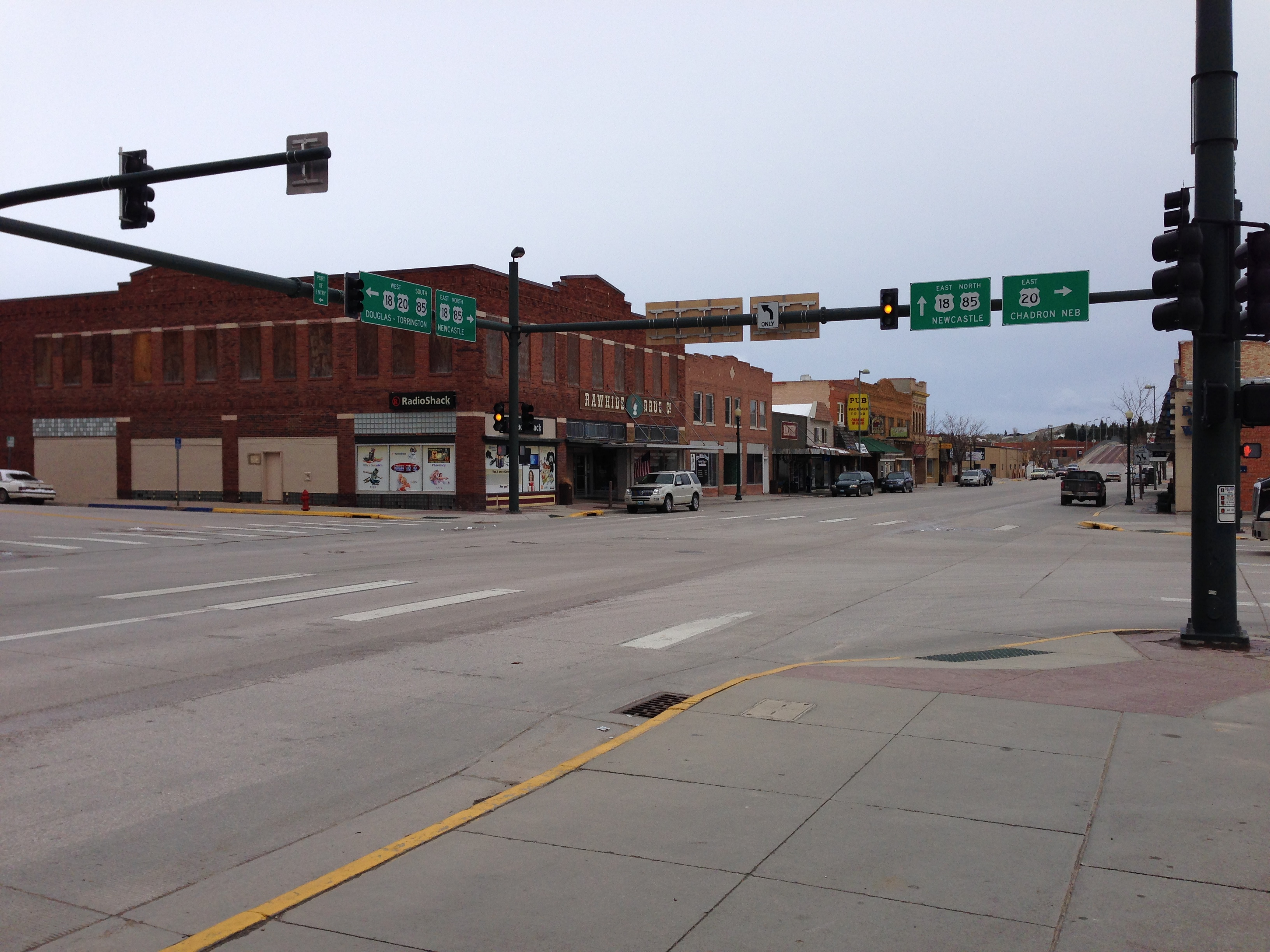 A main intersection in Lusk, Wyoming, a town in the eastern part of the state. This is the meeting of US highways 18, 20, and 85.